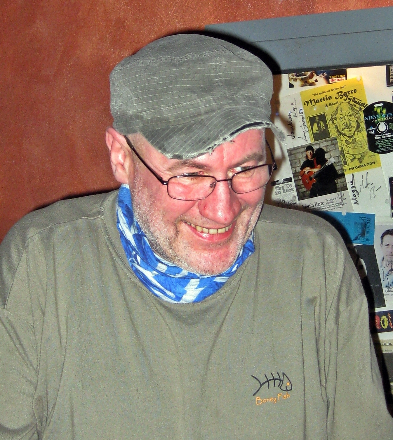 Derek William Dick; called "Fish", former singer for "Marillion", a british Rock Group. Taken after his acoustic concert in Germany (took place at music club "Harmonie", Bonn.)